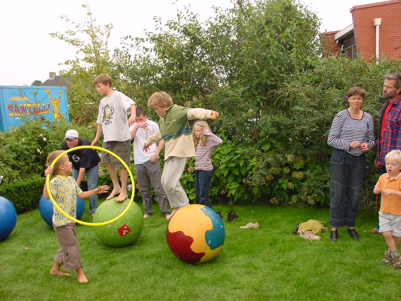 Children's garden party in Harkstede.